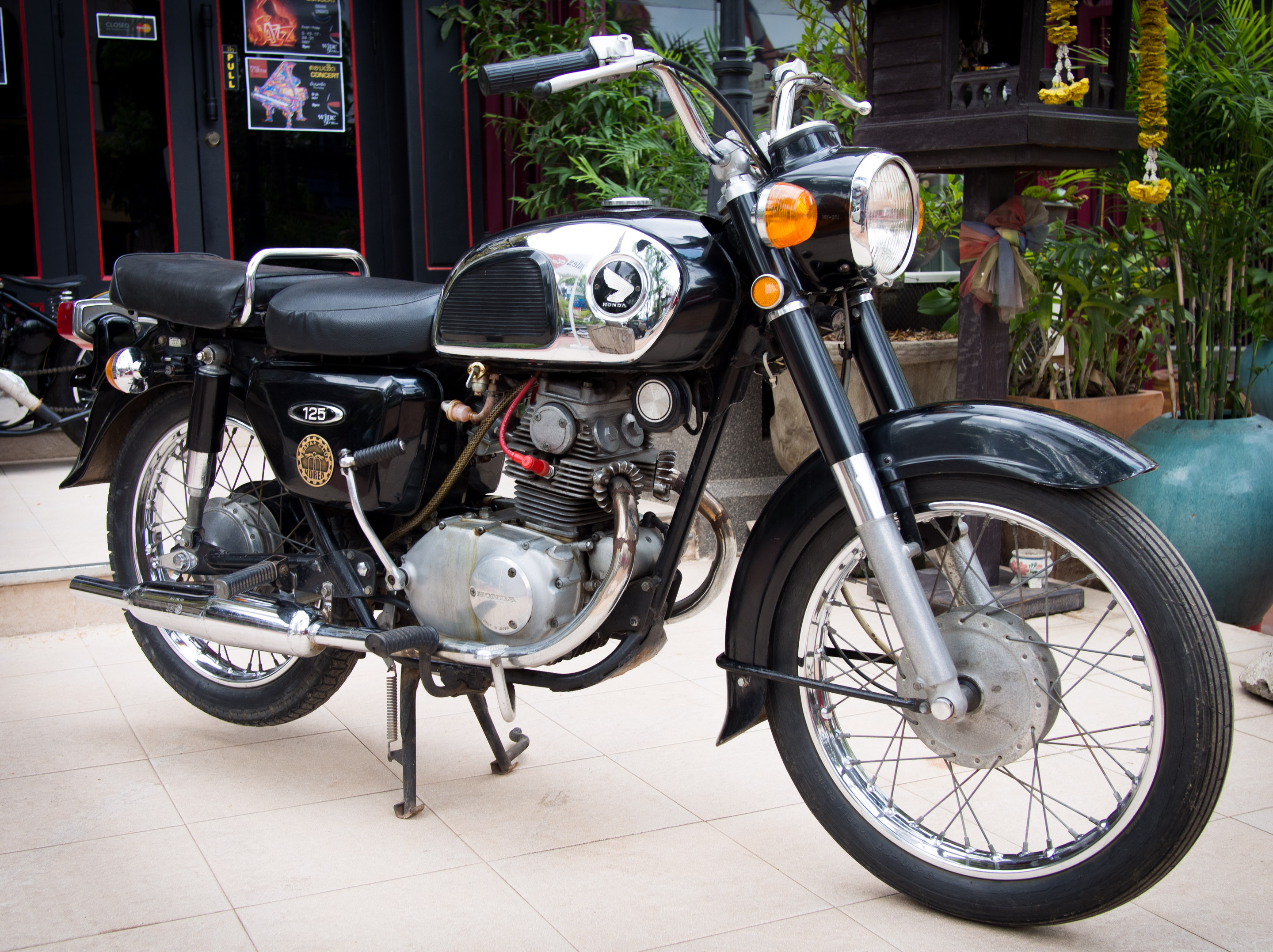 A Honda CB125 from the late 60s in Vientiane, Laos.